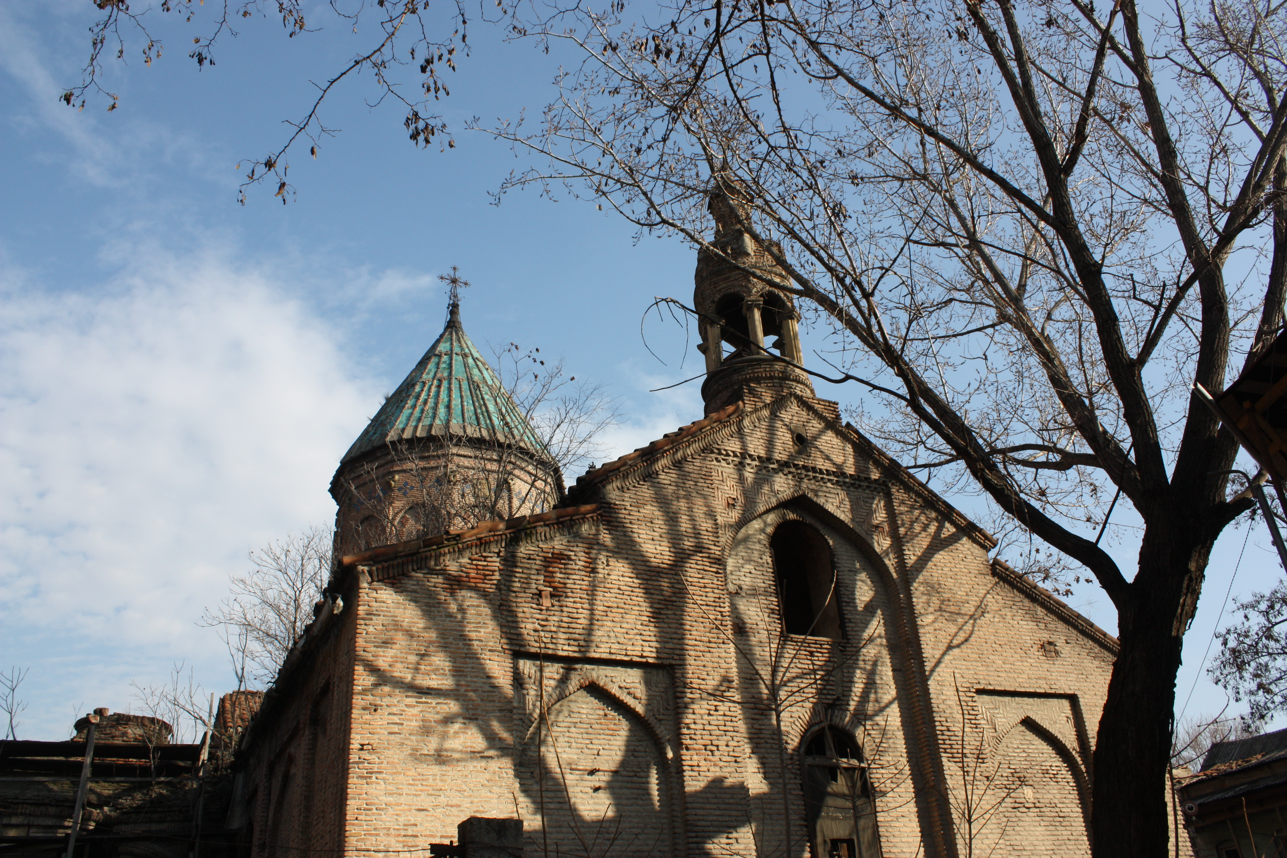 Surb Nishan armenian church in Tbilisi